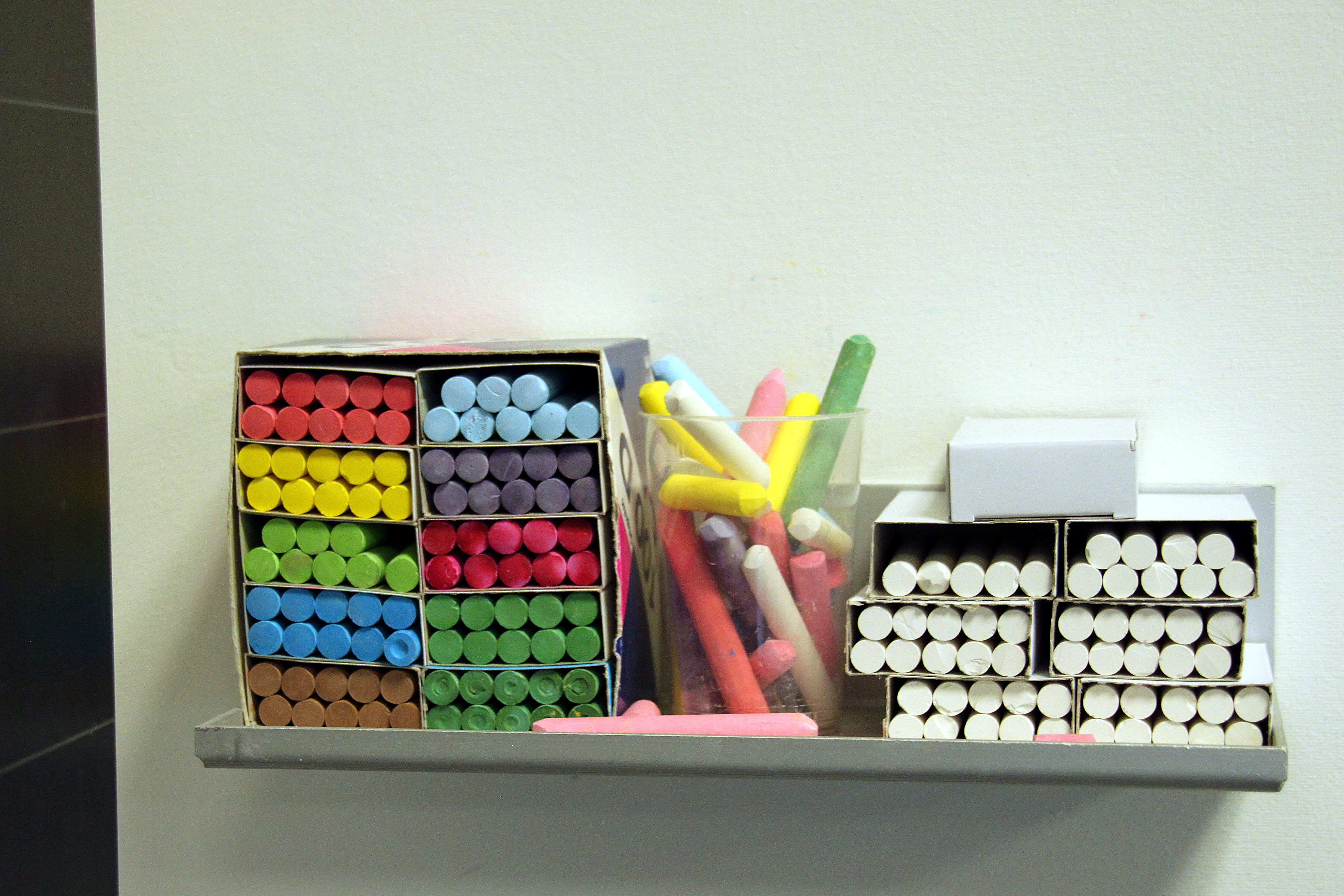 Chalk sticks in different colours next to a blackboard in a Swiss school.